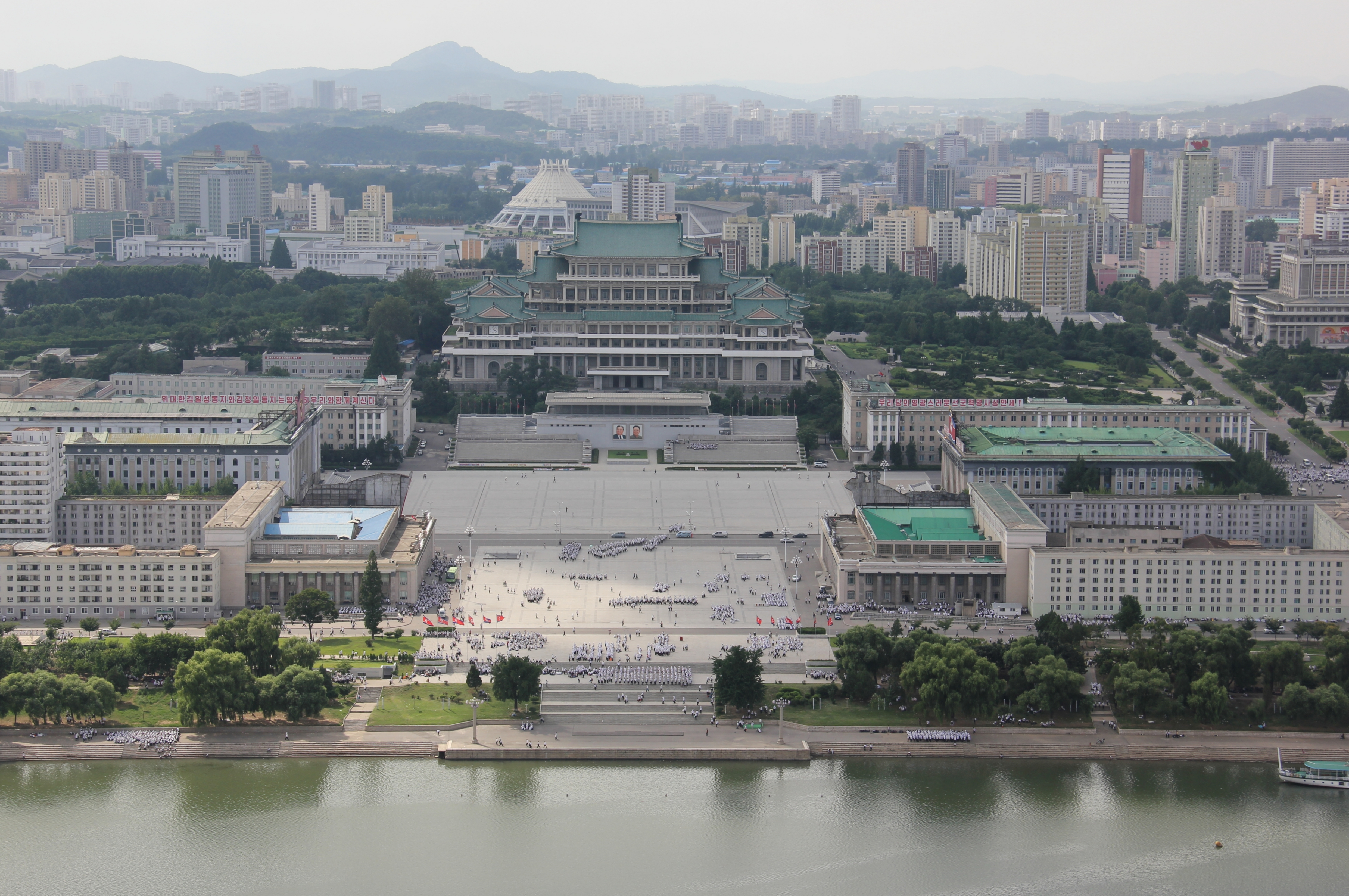 Pyongyang